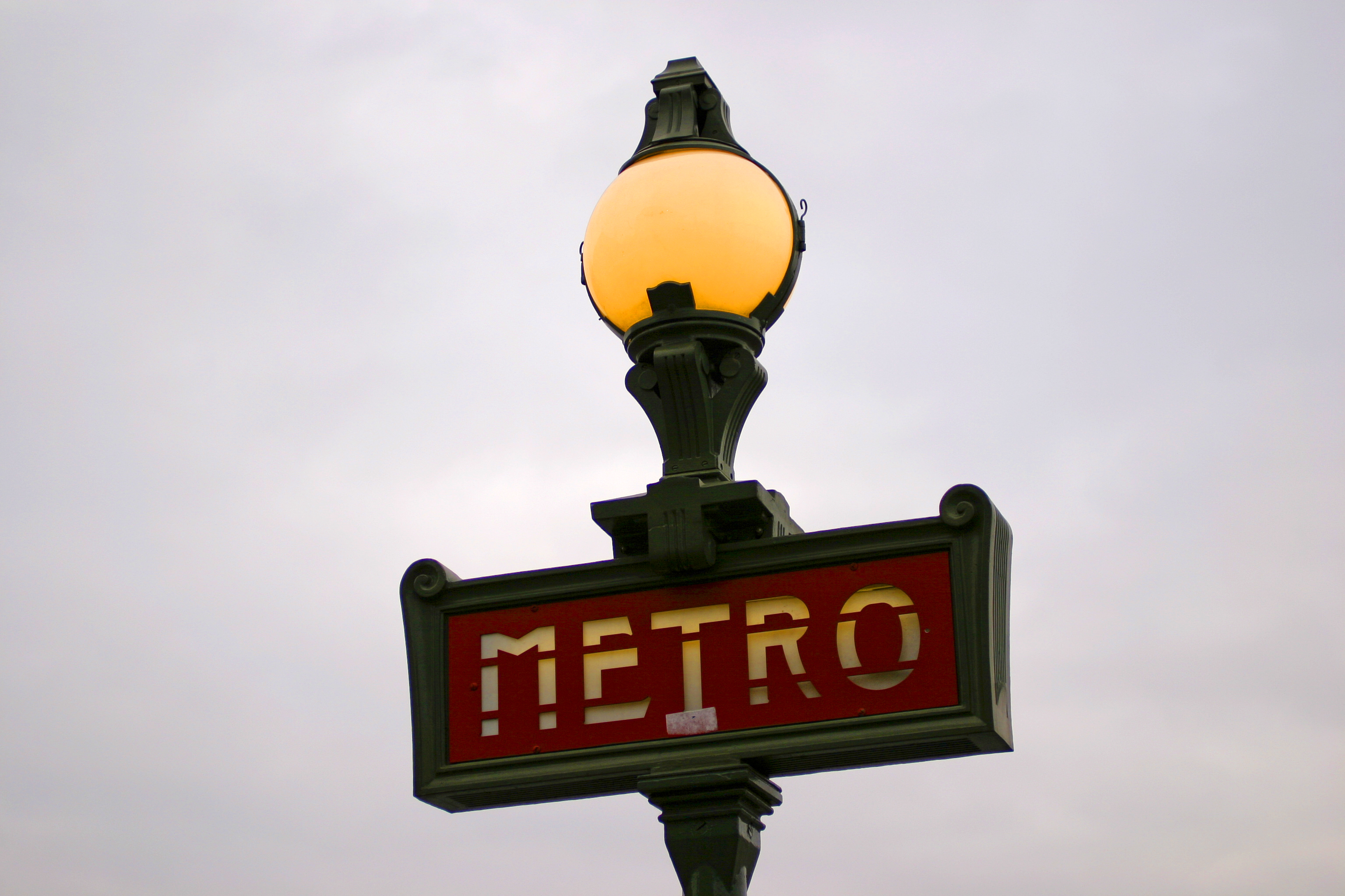 A classic 1930s candelabra